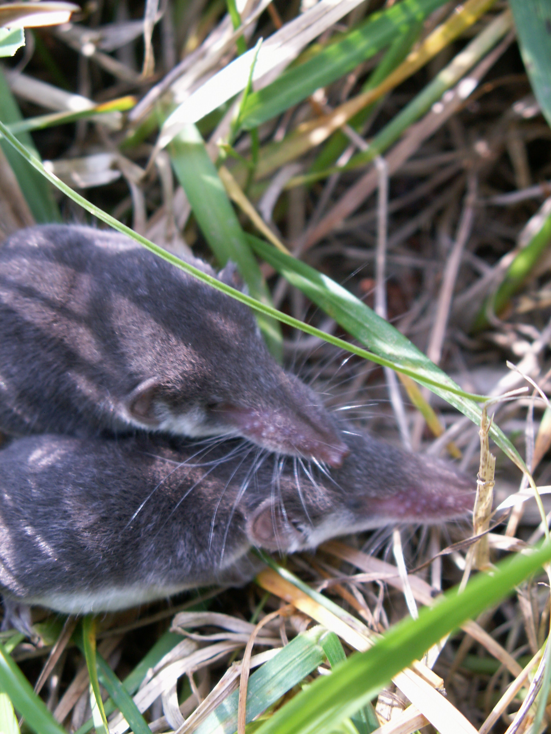 Two young Bicolored Shrews (Crocidura leucodon) on gras